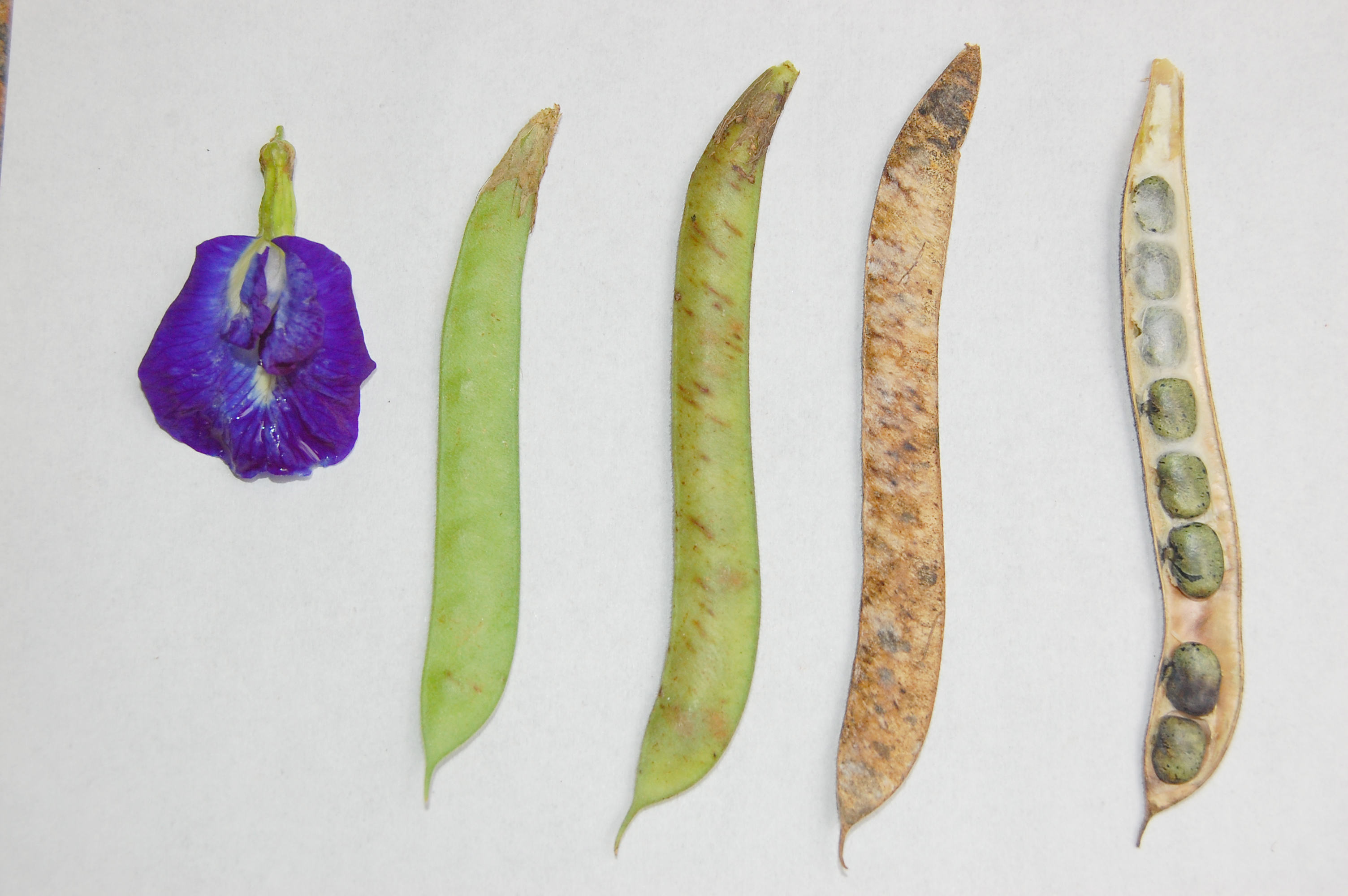 Clitoria ternatea flower and beans